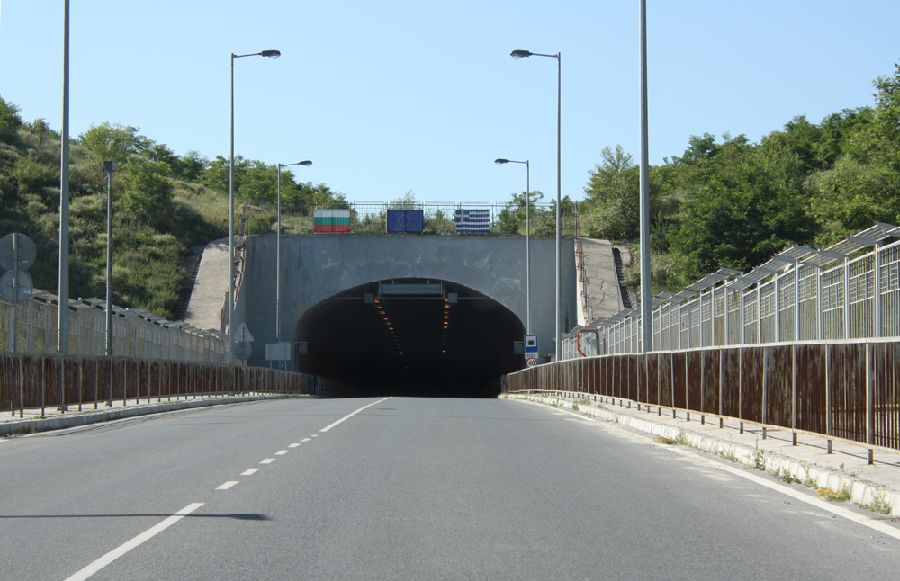 The Bears Border Tunnel at that serves as a bridge for wild bears across the road connecting Bulgarian checkpoint Ilinden and Greek checkpoint Exochi